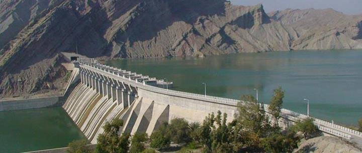 Minab Dam